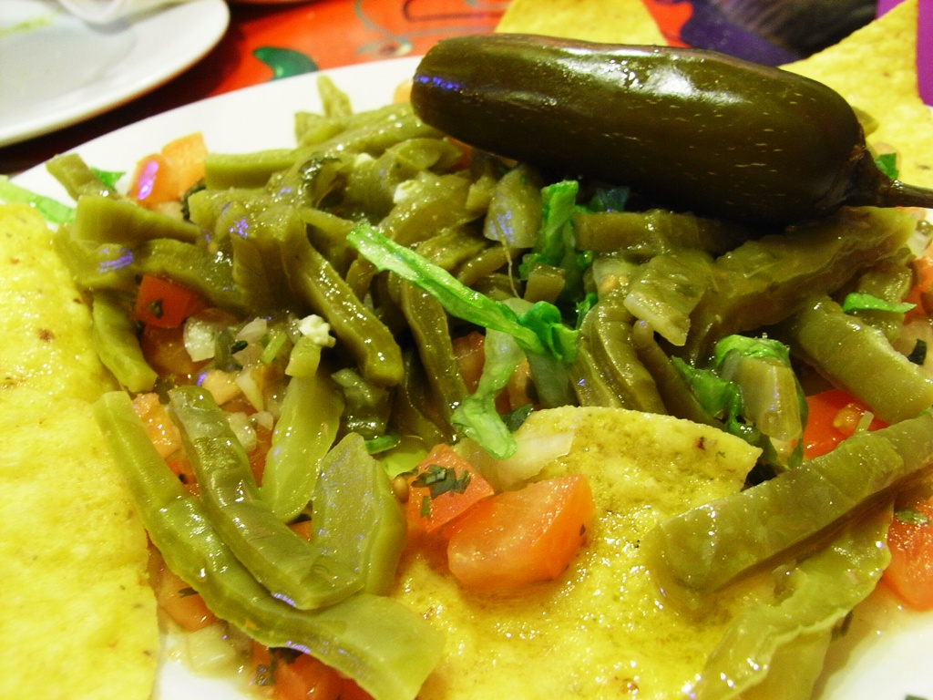 nopal salad, mexican food